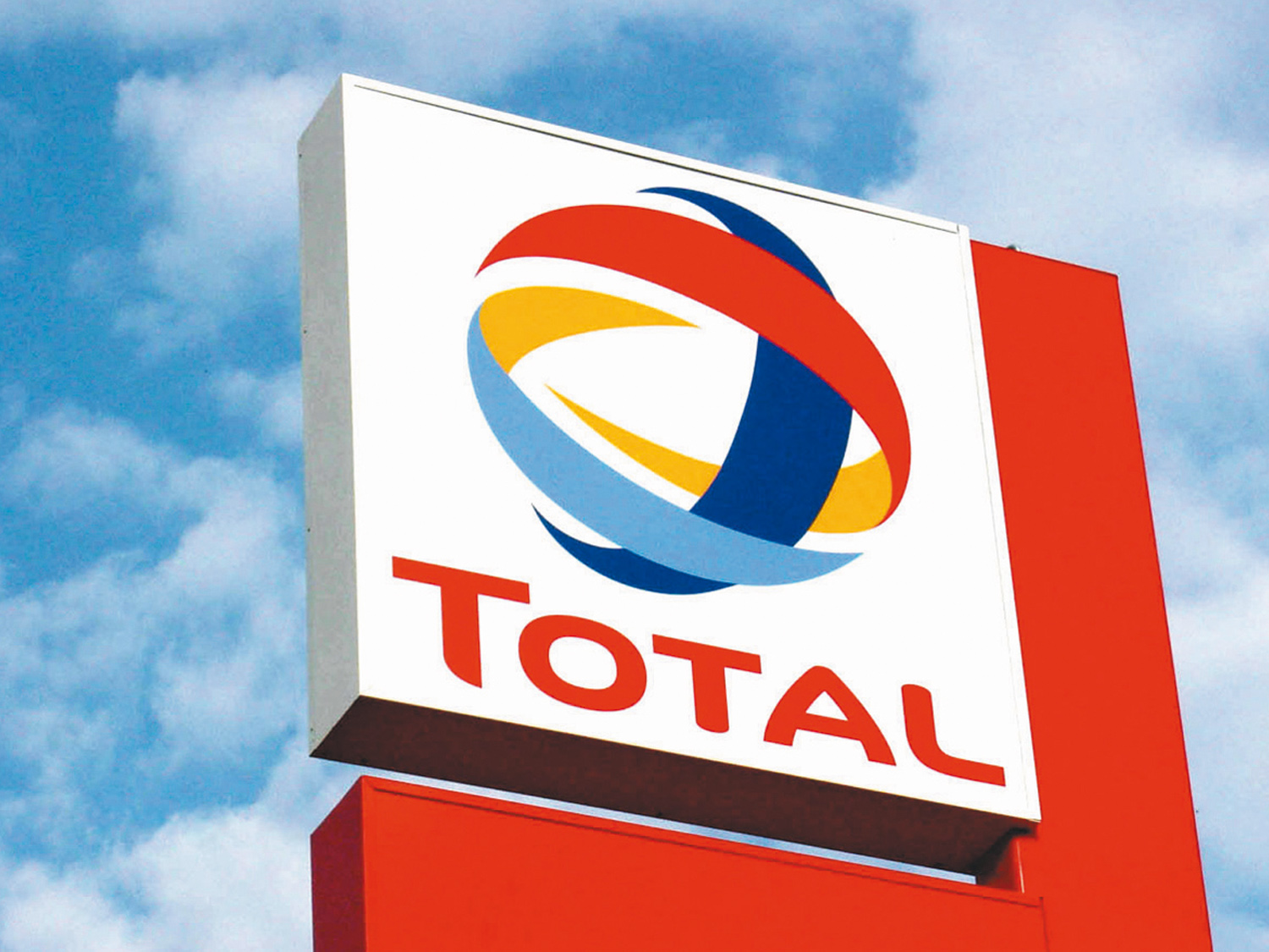 Design Total par Laurent Vincenti